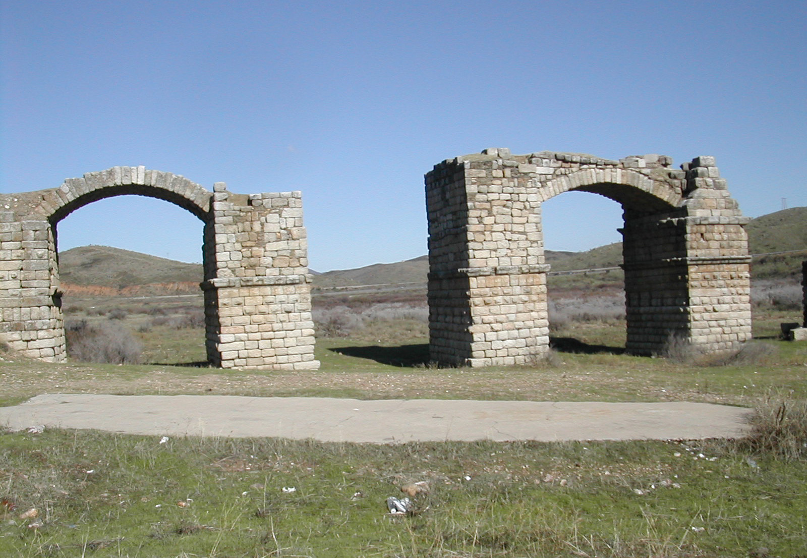 The remains of the Roman Puente de Alconétar (Alconétar Bridge), Cáceres Province, Spain. The ancient segmental arch bridge originally crossed the Tajo river near the village of Garrovillas. In 1972, during the construction of the Alcántara reservoir, the structure was moved 6 km upstream to its current location.